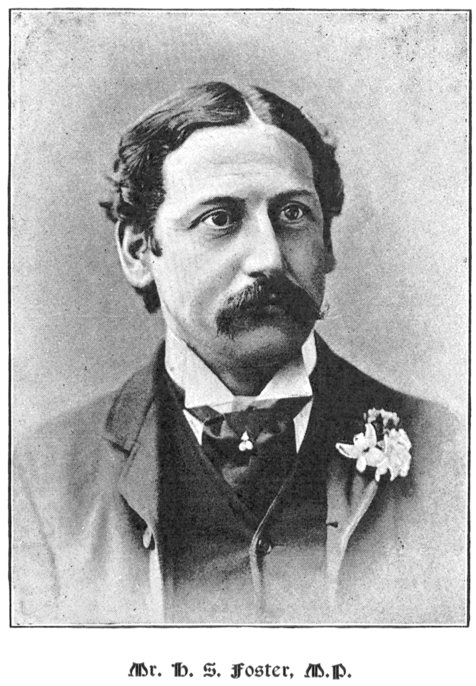 Portrait of Harry Seymour Foster published August 1893 in Suffolk Celebrities